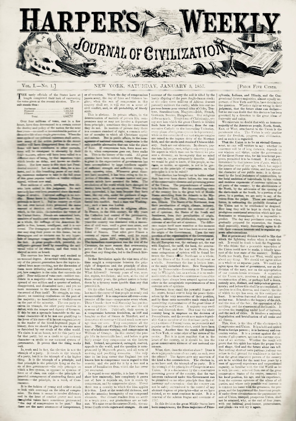 Cover of Harper's Weekly Vol. 1, No. 1 as of January 3, 1857.